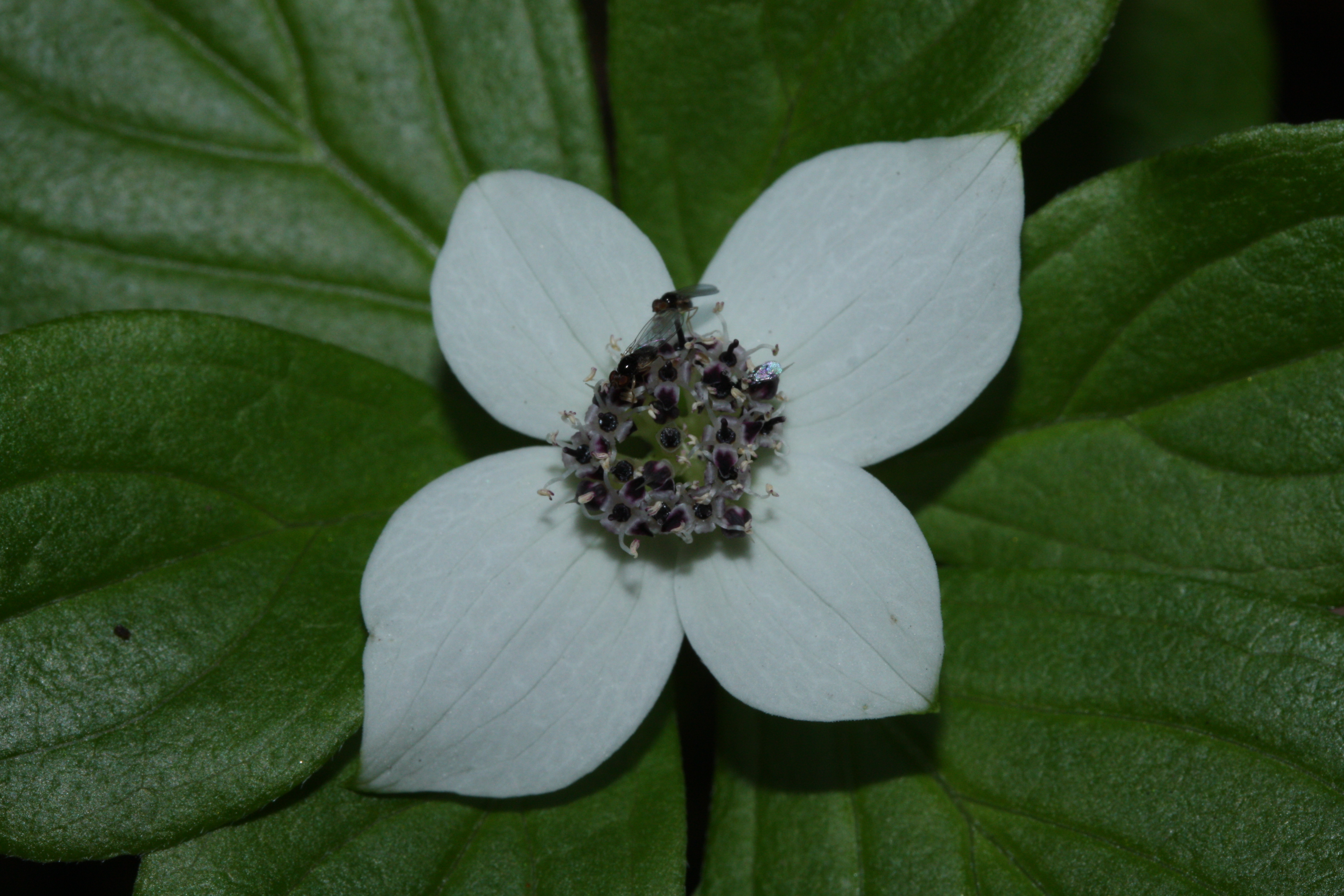 Bunchberry Dogwood